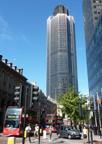 Looking north up Bishopsgate at Tower 42, with the iconic red bus and black cab of London